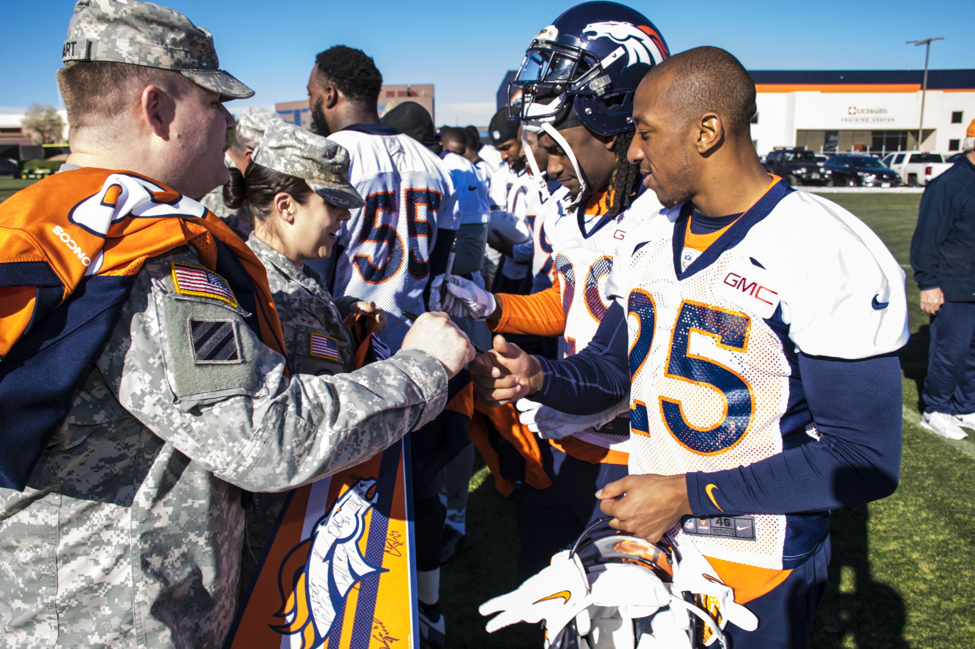 Colorado National Guard members join the ranks of Colorado military members from all services during the Denver Broncos' Military Appreciation Day, Nov. 12, 2015, at the Bronco's Dove Valley training facility.